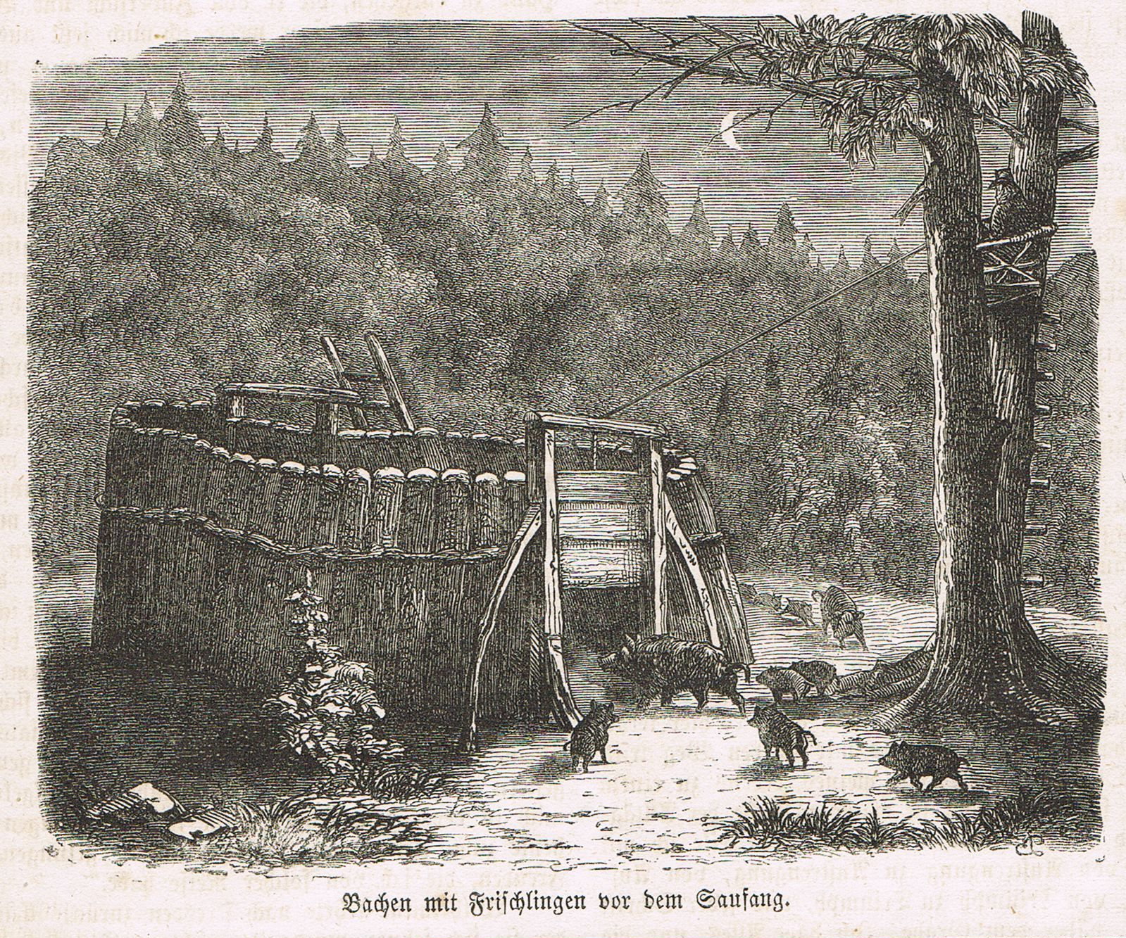 no caption